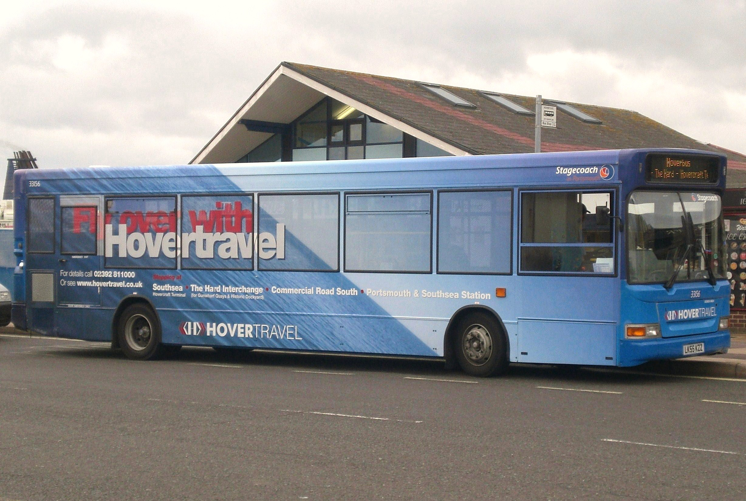 Stagecoach in Portsmouth 33156 (LK55 KZZ), a Dennis Dart SLF/Plaxton Pointer 2, seen at the Southsea Hoverport, Southsea. This bus is known as the "Hoverbus", and runs to take passengers from the Hovertravel terminal to Portsmouth City Centre and other transport links along the way. It was previously operated by Tellings-Golden Miller, but after they sold their Portsmouth coach depots (with National Express services transferring to Lucketts), the route and bus was given to Stagecoach.